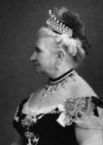 Photo of HRH Princess Augusta of Cambridge (1822–1916), later the Grand Duchess of Mecklenburg-Strelitz